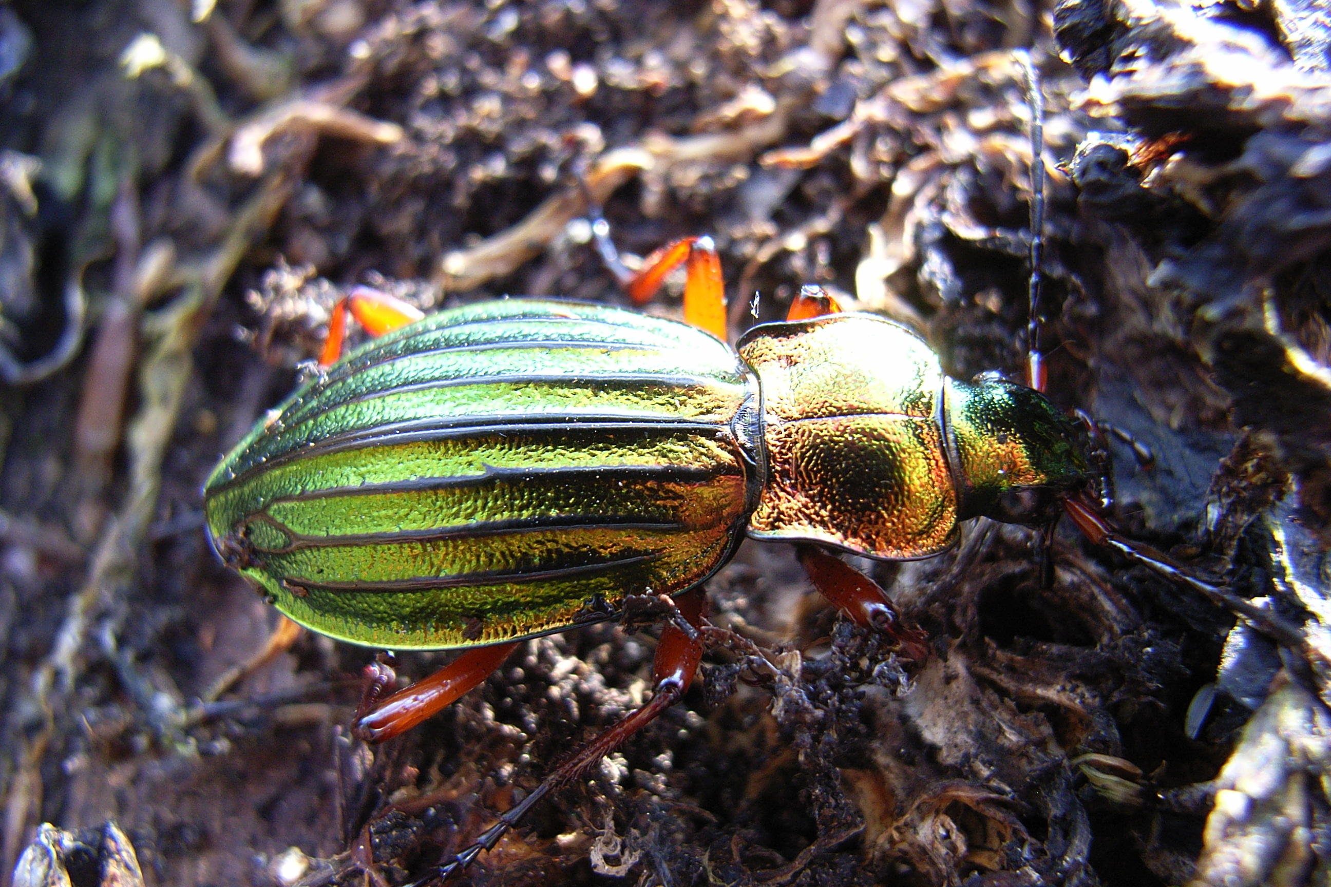 Carabus auronitens from Southern Germany